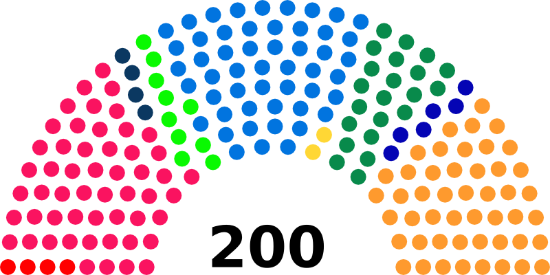 Seats diagramme of Swiss National Council (1963)